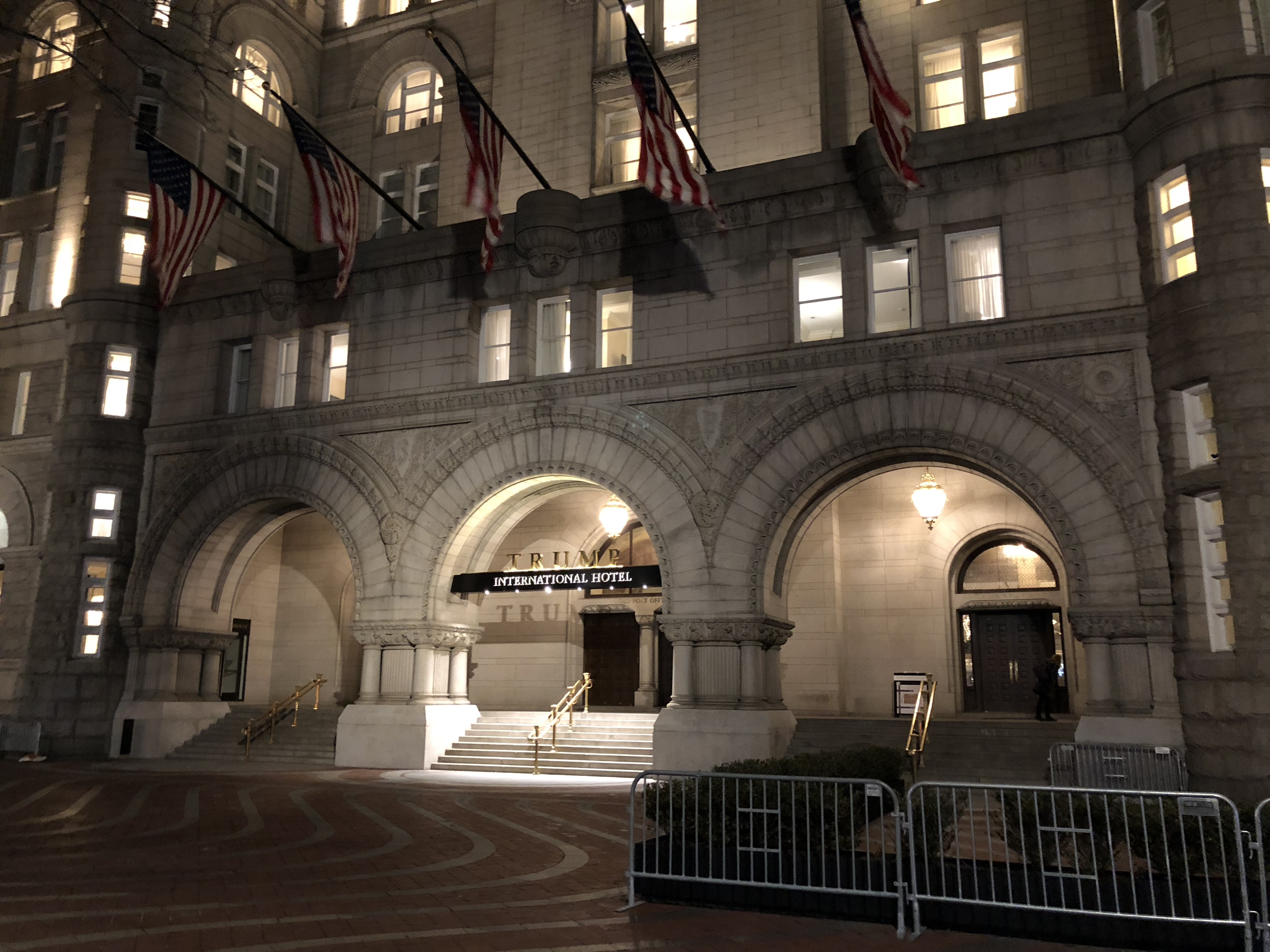 Taken March 2018